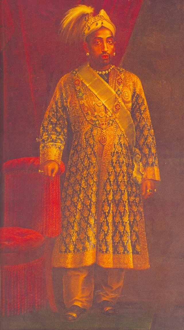 Visakham Thirunal Rama Varma who was the Maharaja of the erstwhile Indian kingdom of Travancore from 1880-1885 C.E., with his Divan